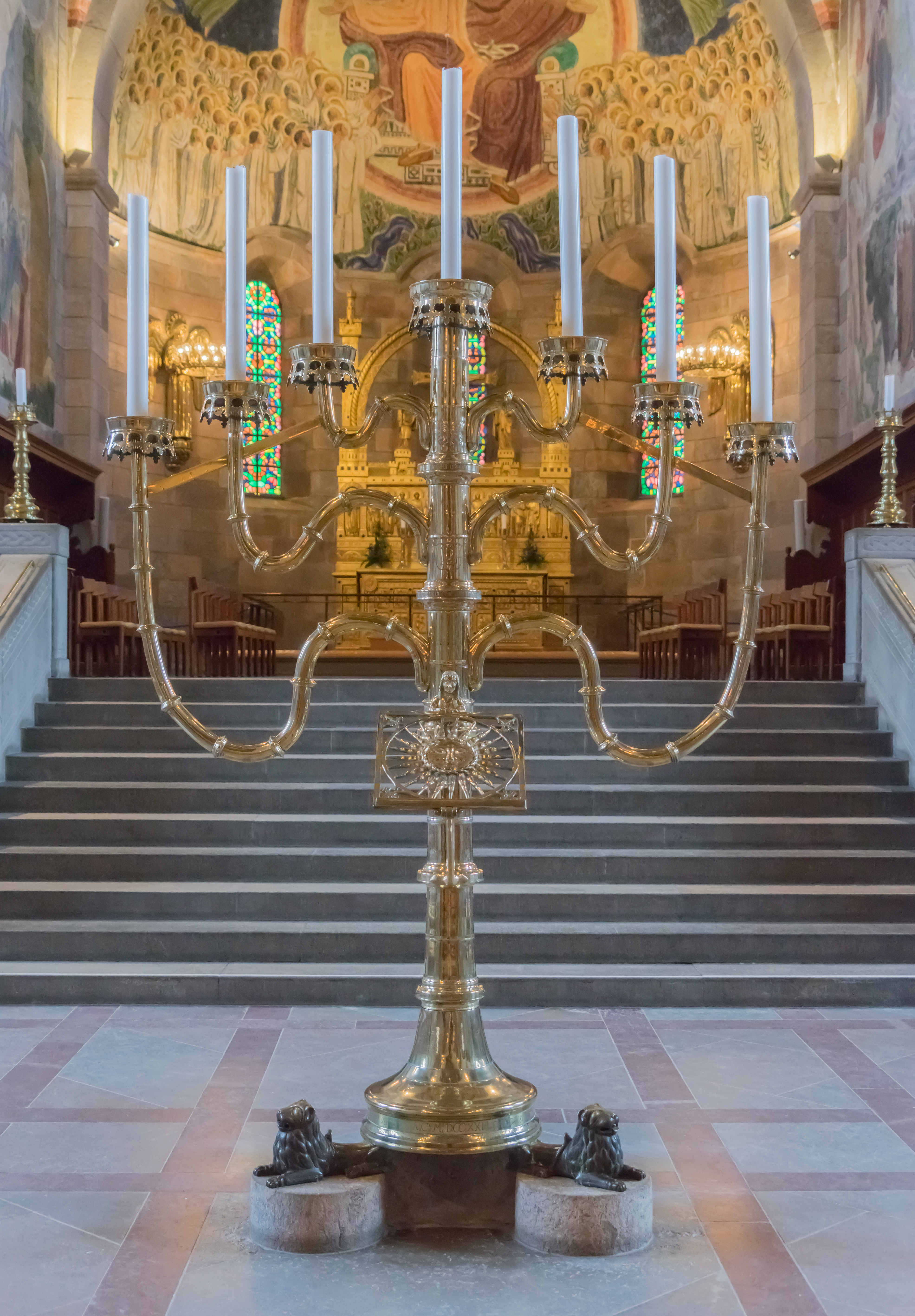 the seven-branches candlestick (14th-c ?) in the choir of the Viborg cathedral, Denmark.